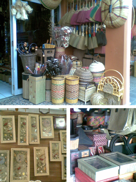 A picture taken from a handicraft shop in Rajapolah Handicraft Centre in Rajapolah Subdistrict, in Tasikmalaya Regency, in the province of West Java, Indonesia, showing the Rajapolah handicrafts.